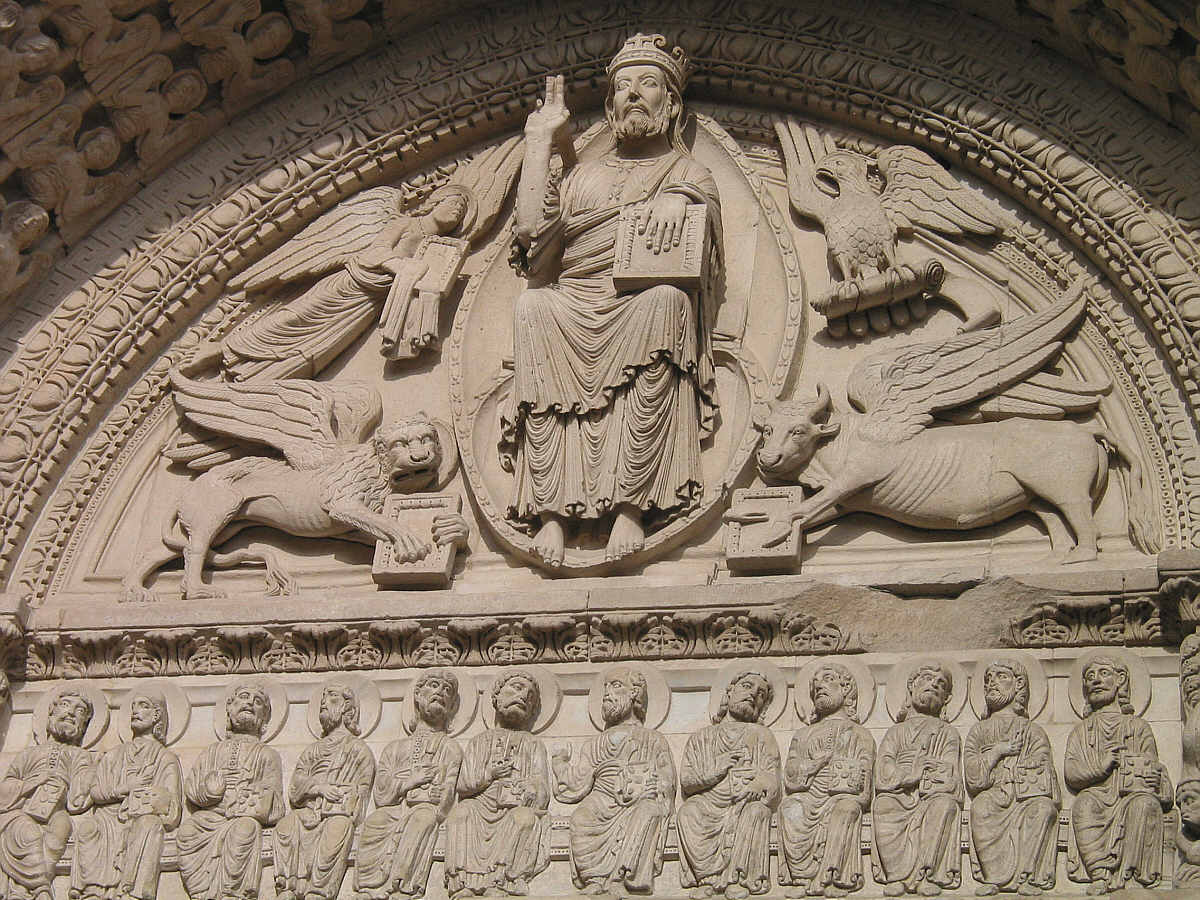 Detail of portal of St. Trophime in Arles, France. Christ in the centre is surrounded by symbols of the Four Evangelists: Matthew (human, upper left), Mark (lion, lower left), Luke (ox bull, lower right) and John (eagle, upper right). Below we see the row of the twelve Apostles.